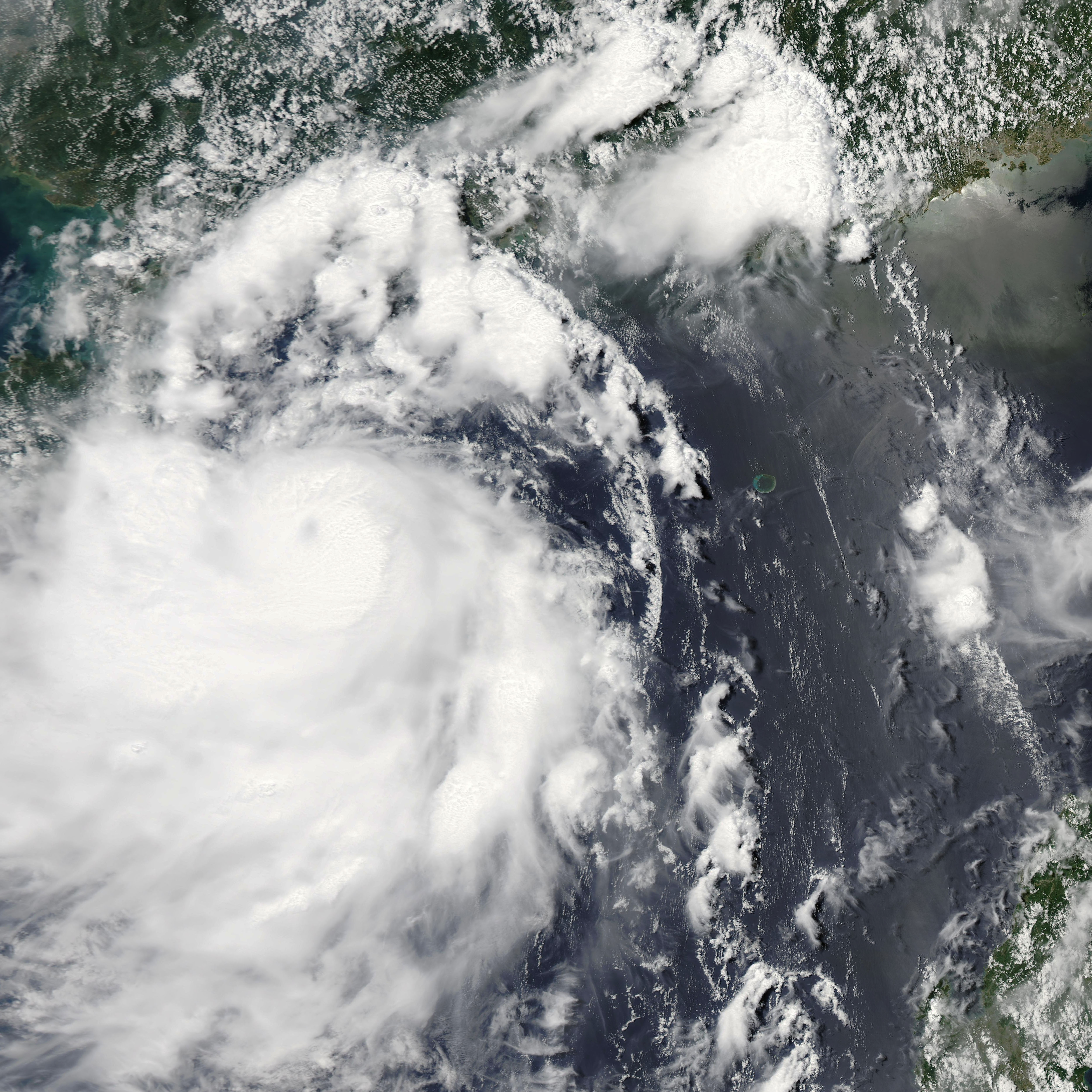 Severe Tropical Storm Rumbia over the South China Sea on July 1, 2013. At that time, the JTWC was tracking it as a category 1 typhoon at that time. Rumbia also started to develop a shallow eye on that day, was was visible in visible satellite and microwave images.